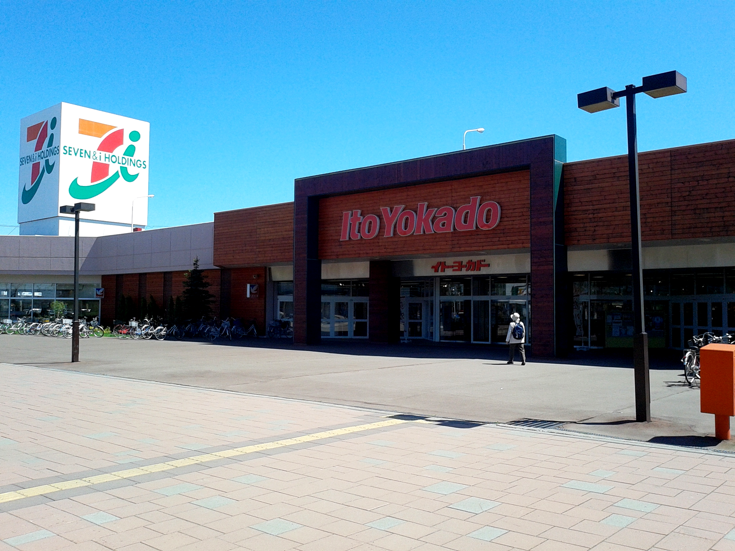 Ito Yokado supermarket in Megumino, Eniwa, Hokkaido